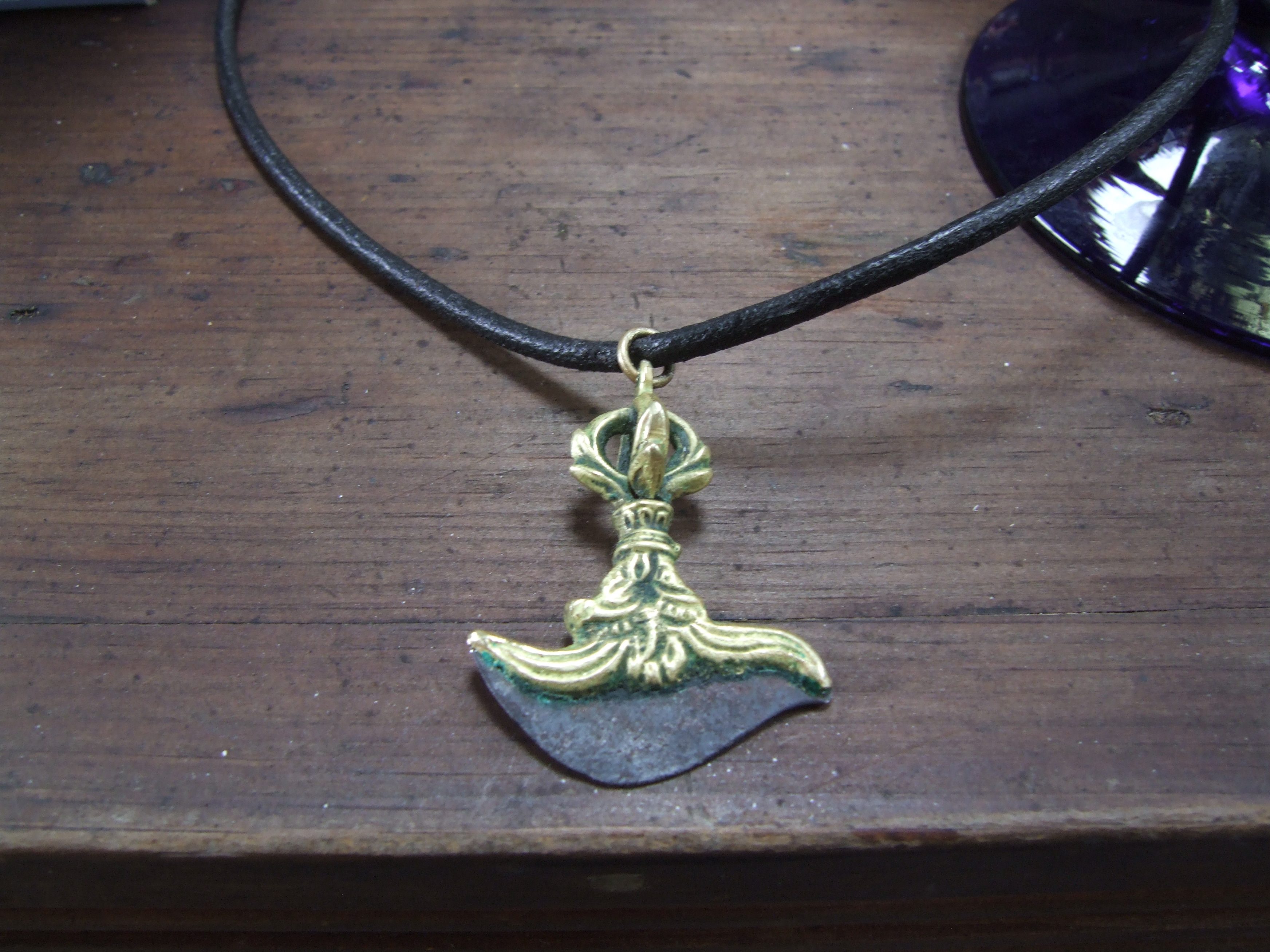 A Kartika ritual knife used in Buddhist and Hindu practices.